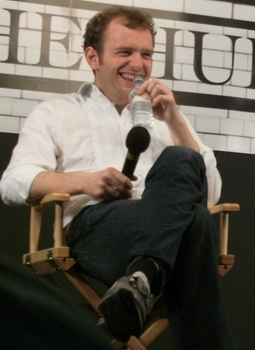 Tom Price